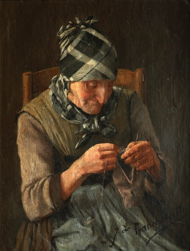 Tricoteuse, peinture de Jean de FRANCQUEVILLE